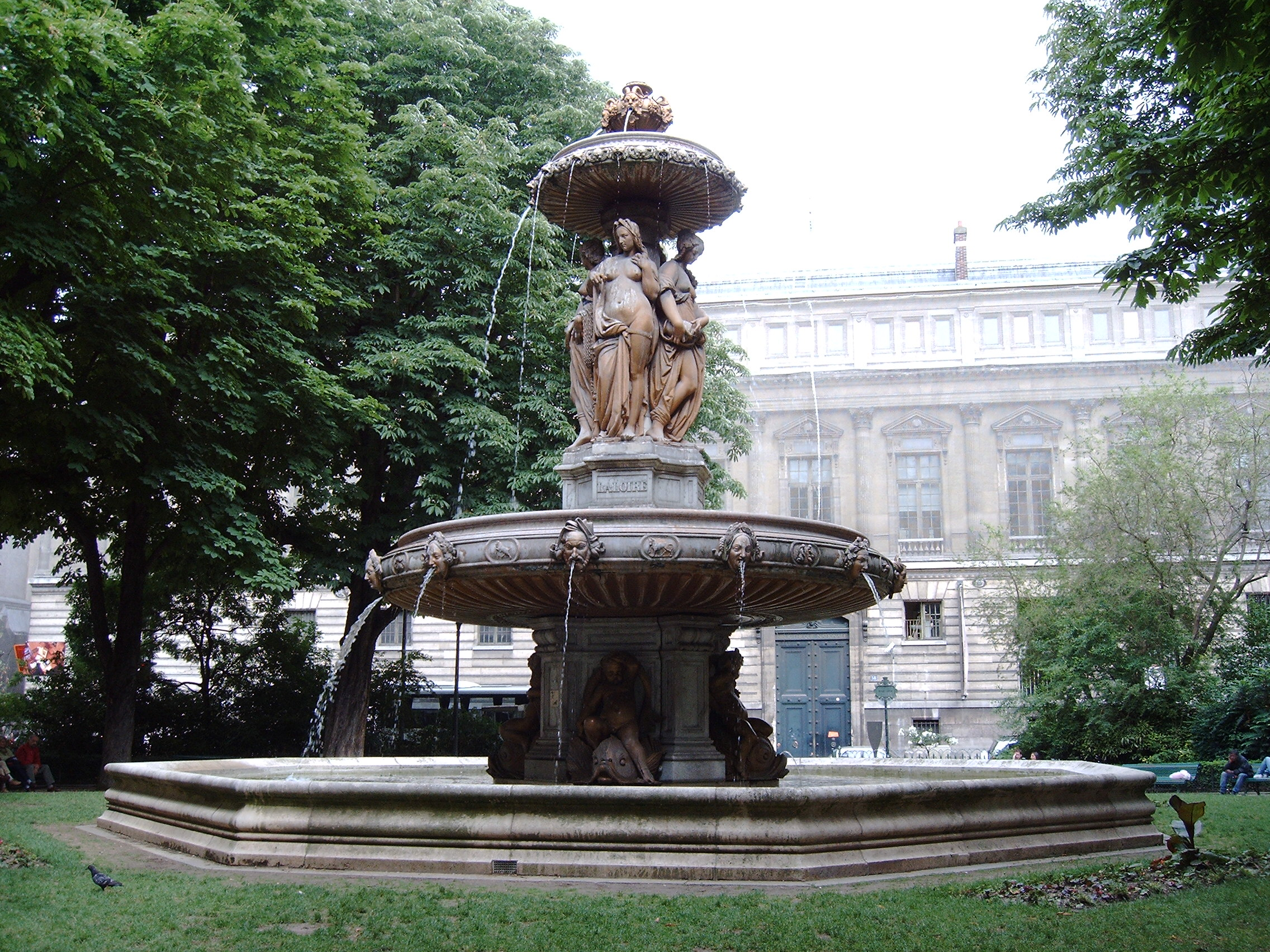 Fountain inaugurated in the 1840's in Paris' 2nd arrondissement Architecture : Louis Visconti (1791–1853) Description French architect Date of birth/death11 February 179123 December 1853Location of birth/deathRomeParisAuthority control VIAF: 24653651 ISNI: 0000 0001 1608 8885 ULAN: 500008209 LCCN: nr92041841 GND: 119100932 WorldCat Sculpture : Jean-Baptiste Jules Klagmann (1810–1867) Description French sculptor Date of birth/death18101867Authority control VIAF: 95944321 ULAN: 500040676 GND: 140248021 SUDOC: 18167033X